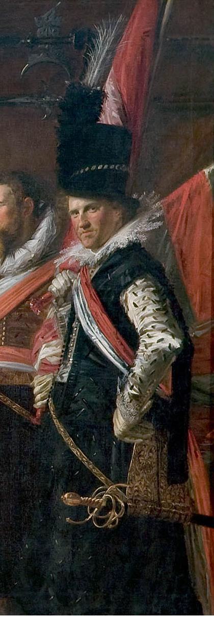 Portrait of Boudewijn van Offenberg in The Banquet of the officers of the Saint George Civic guard in Haarlem in 1616, detail